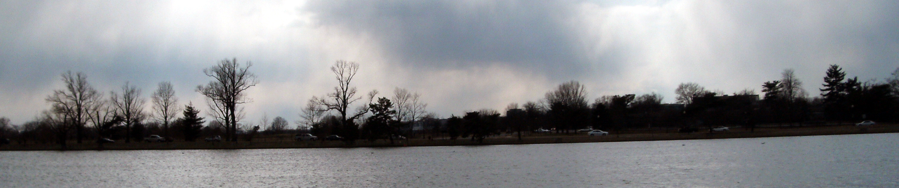 Cropped and lightened from an image I took for Wikipedia